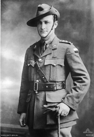 William Donovan Joynt VC (19 March 1889 - 6 June 1986) ID Number: A03534 Maker: Unknown; alpha lithograph Place made: France Date made: c 1918 Physical description: Black & white Summary: Studio portrait of Lieutenant (Lieut) William Donovan Joynt VC, 8th Battalion. Lieut Joynt was awarded the Victoria Cross for 'most conspicuous bravery and devotion to duty during the attack on Herlville Wood' on 23 August 1918, near Peronne, France. Lieut Joynt took charge of the company after the company commander was killed, reorganising them under heavy machine gun fire. He later led a frontal bayonet attack on the enemy, saving a critical situation. He continued to attack in this manner until he was badly wounded by a shell. He was discharged in June 1920. Copyright: Copyright expired - public domain Copyright holder: Copyright Expired Related subject: Portraits Related unit: 8 Battalion Related conflict: First World War, 1914-1918